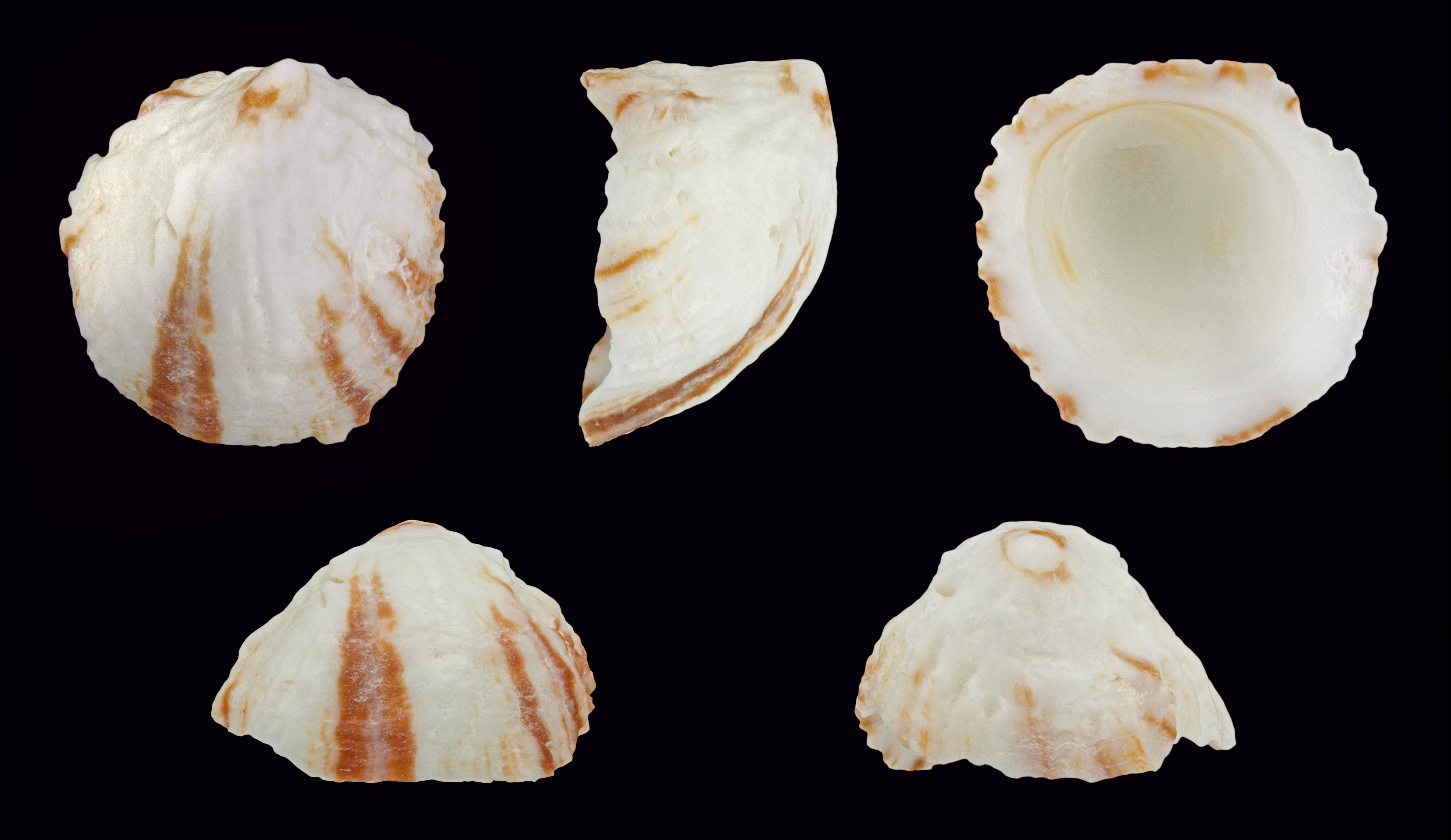 Sabia conica acuta Quoy & Gaimard, 1835; Length 1.5 cm; Originating from the Philippines; Shell of own collection, therefore not geocoded.